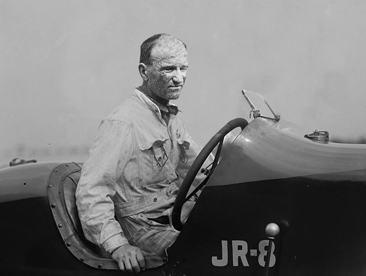 Earl Cooper (American racecar driver) in 1925.